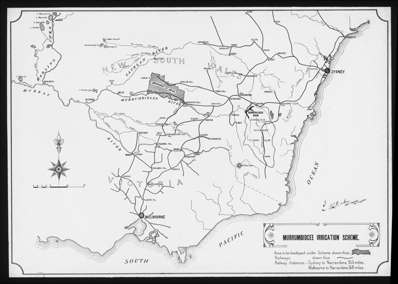 Map of southern NSW showing Murrumbidgee Irrigation Area Dated: by 11/05/1908 Digital ID: 14086_a005_a005SZ847000020r Rights: We'd love to hear from you if you use our photos. Many other photos in our collection are available to view and browse on our website using Photo Investigator .